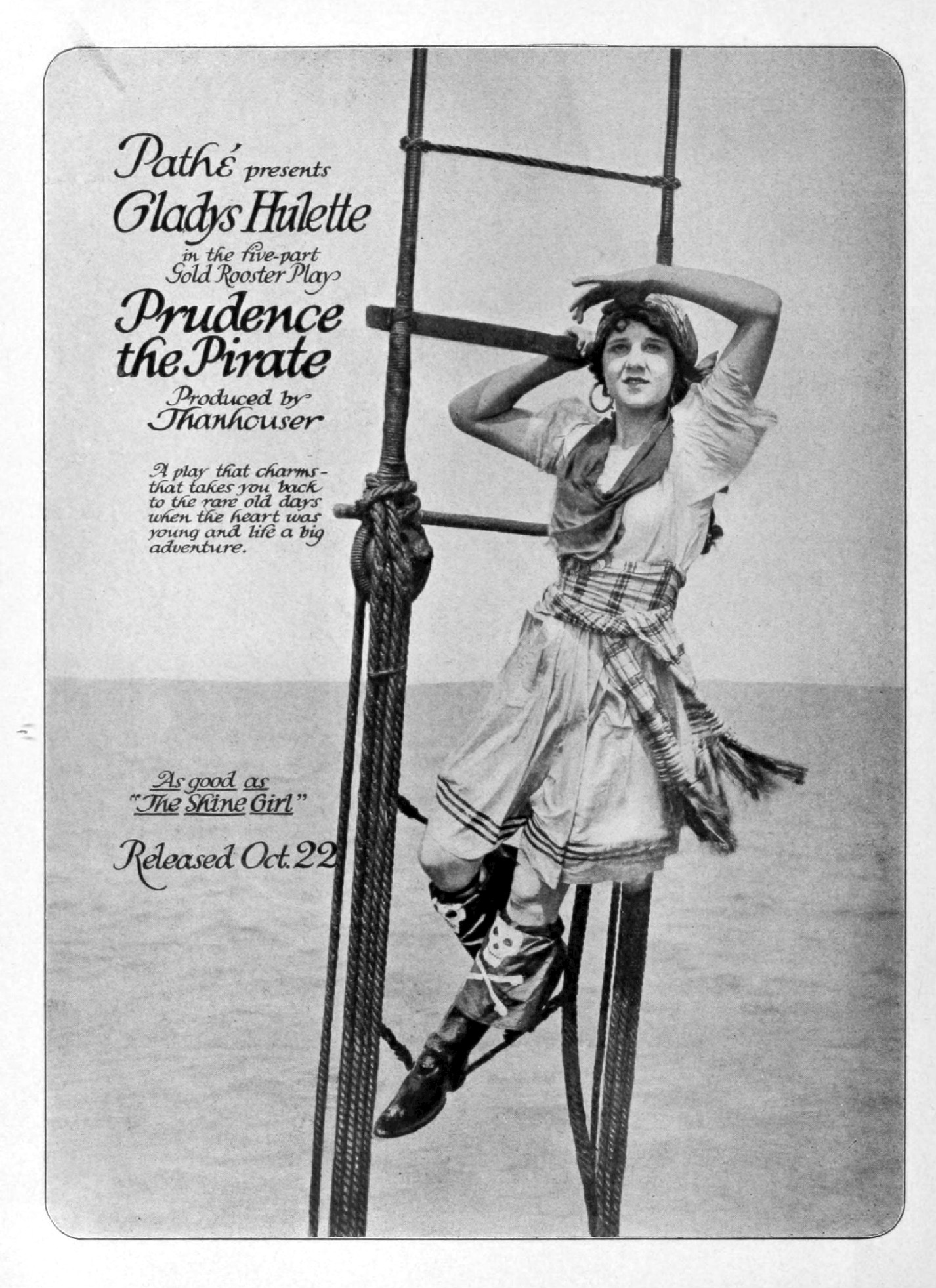 Ad for the 1916 film Prudence the Pirate from the October 21, 1916 issue of Moving Picture World.